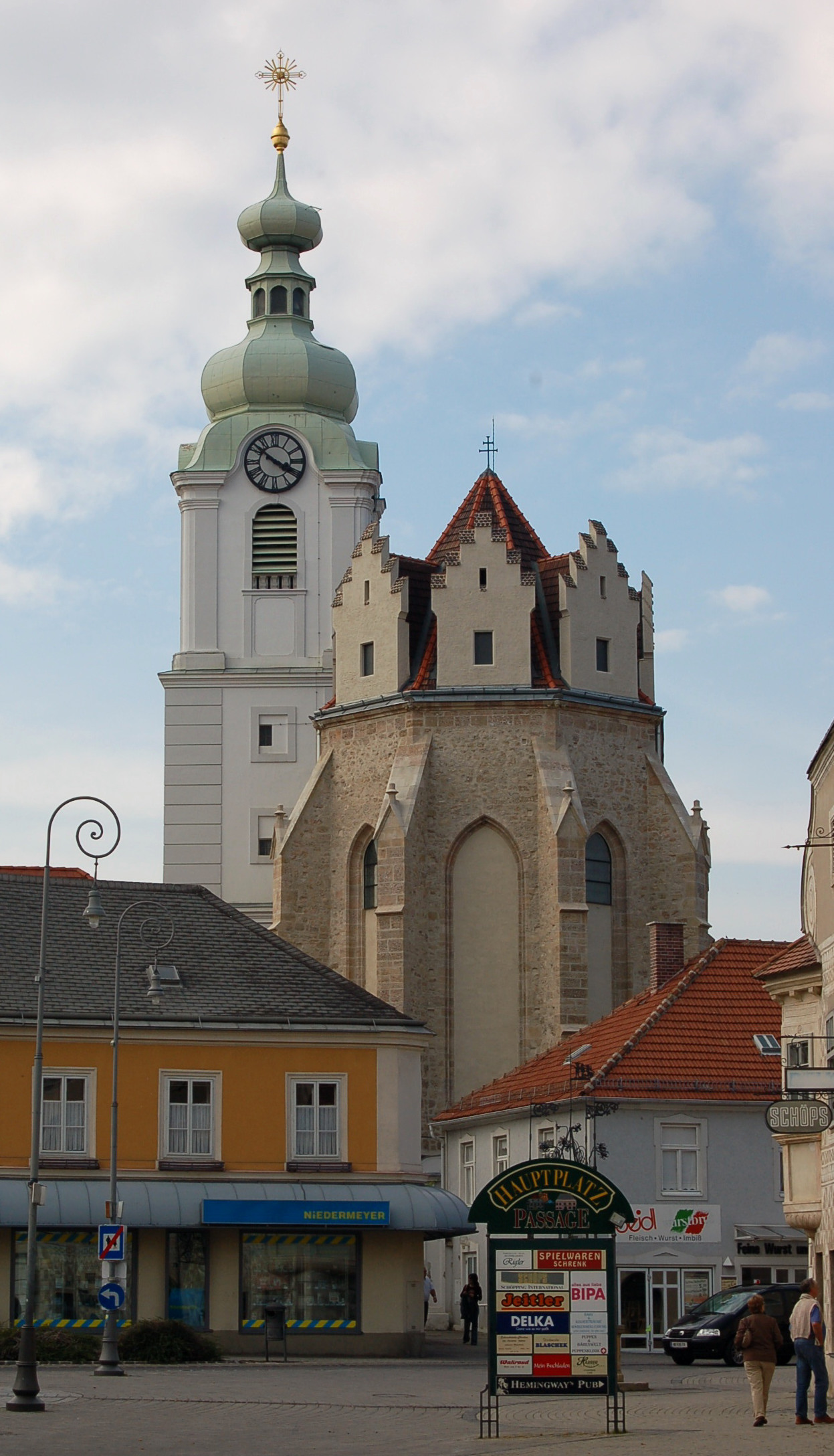 Parochial church of Neunkirchen, Lower Austria